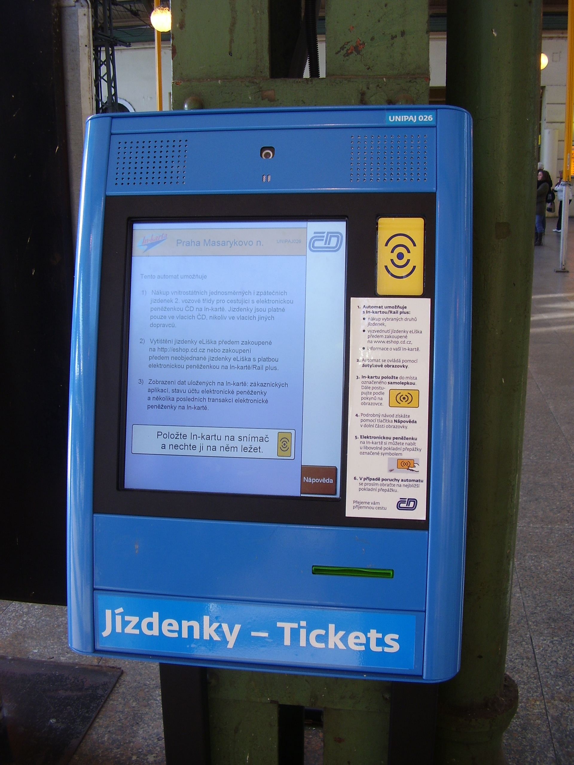 Railway ticket machine at Prague-Masarykovo nádraží, UNIPAJ system.